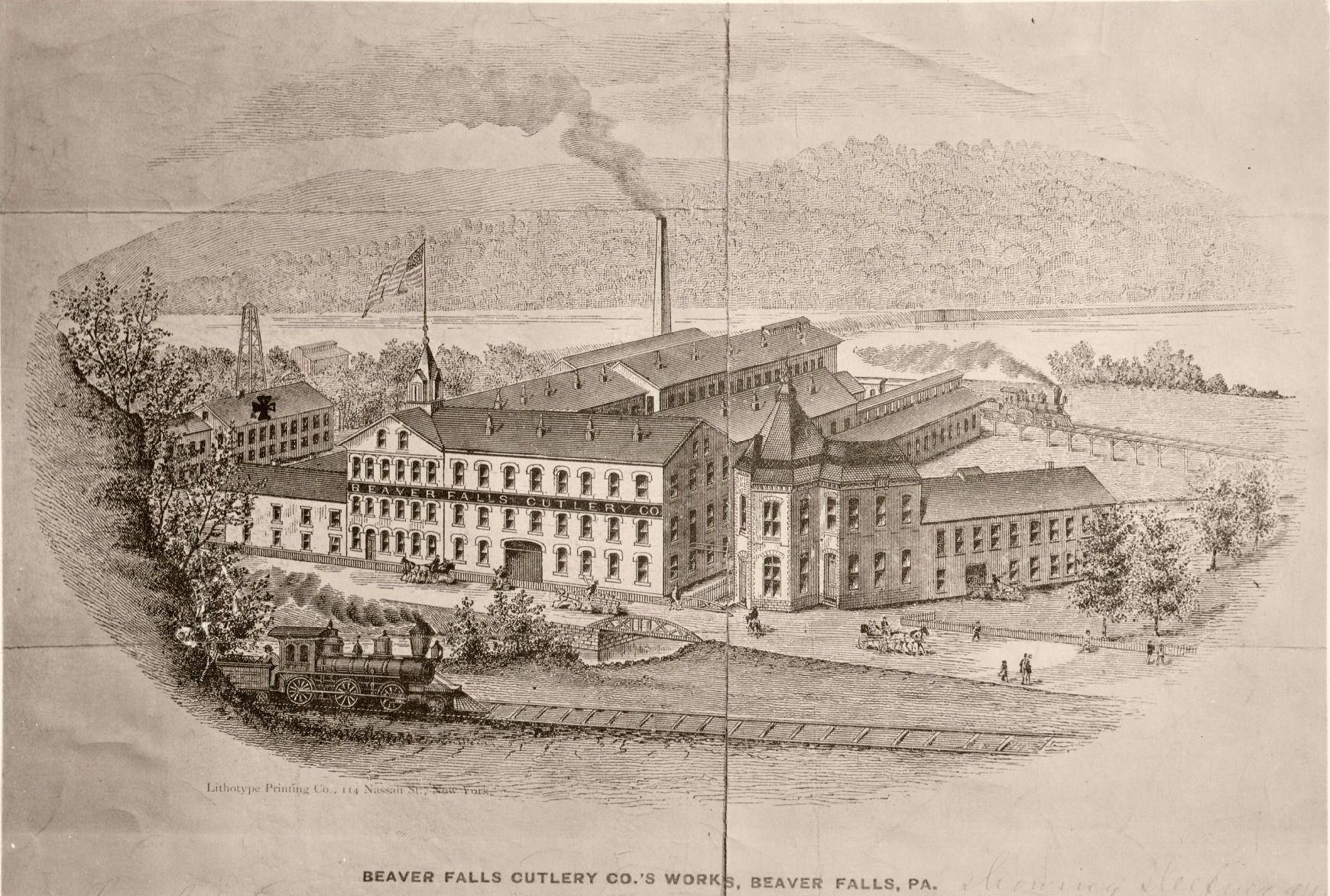 1867 engraving of Beaver Falls Cutlery Works, Beaver Falls, Pennsylvania. Published by Lithotype Printing Co., New York.